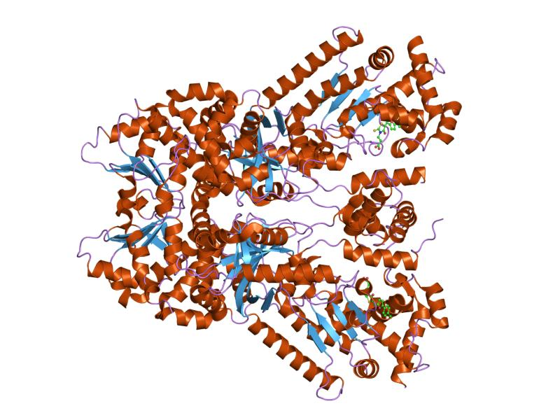 Cartoon representation of the molecular structure of protein registered with 1zxv code.